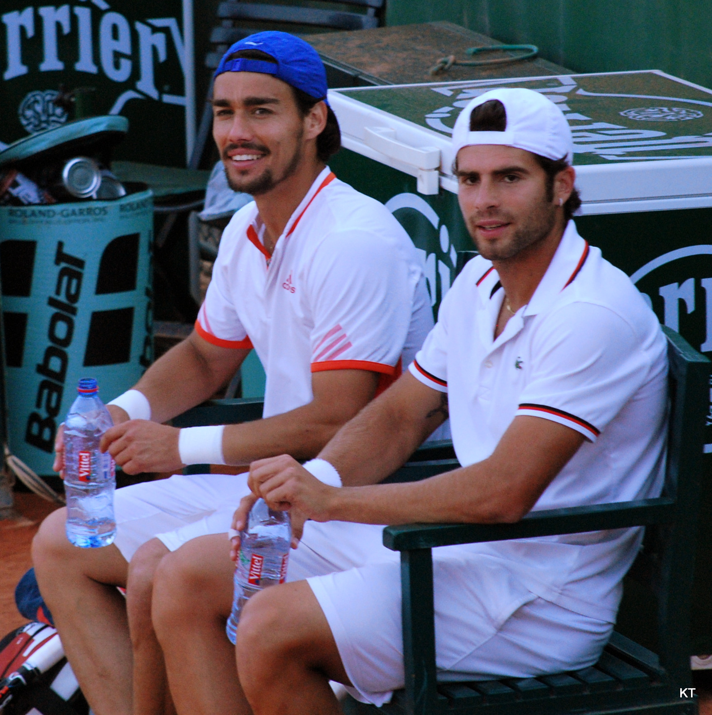 Doubles partners Fabio Fognini & Simone Bolelli, Day 5 of Roland Garros 2012.